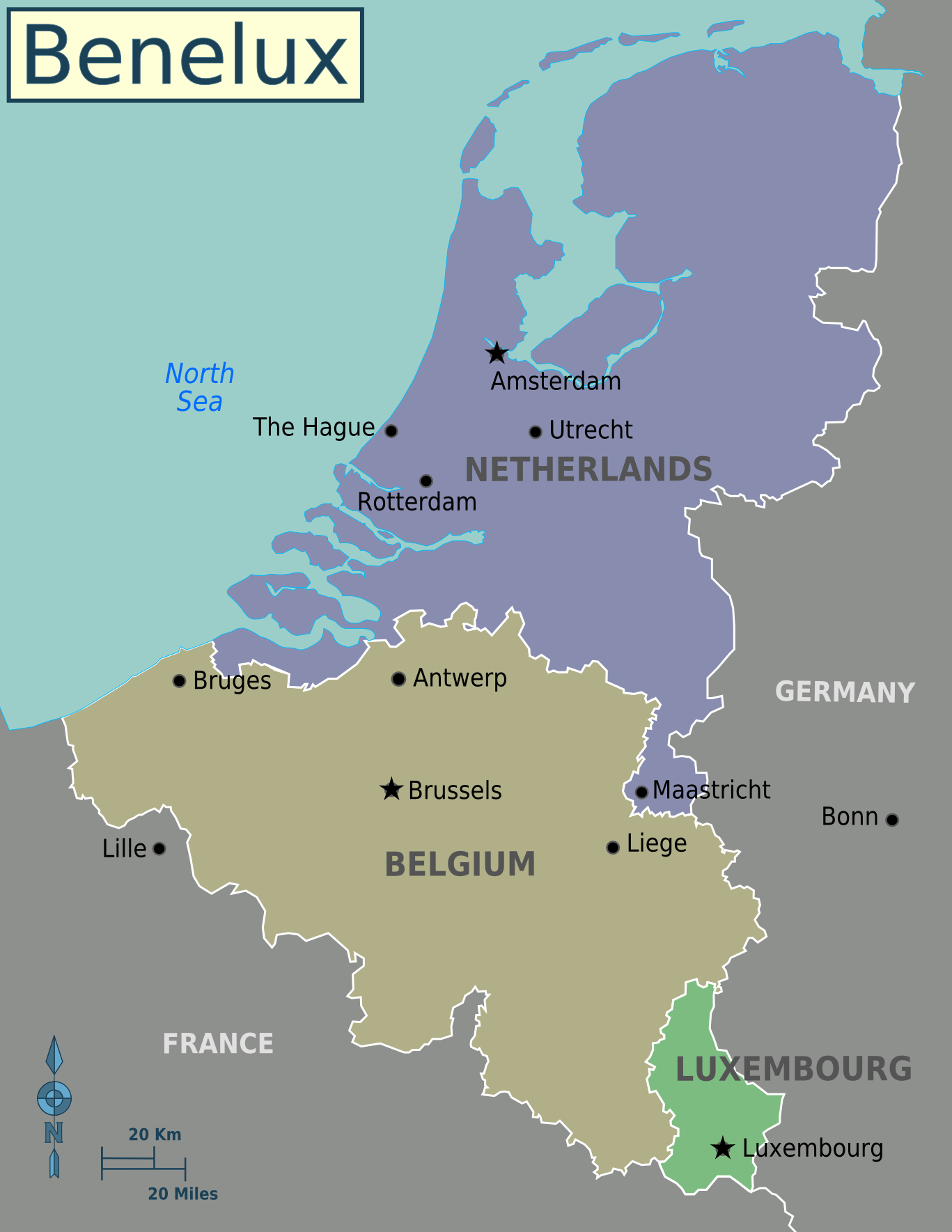 Map of Benelux for use on Wikivoyage, English version